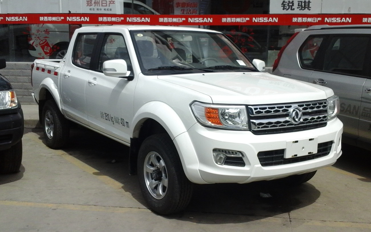 Dongfeng Rich II photographed in Xi'an, Shaanxi province, China.